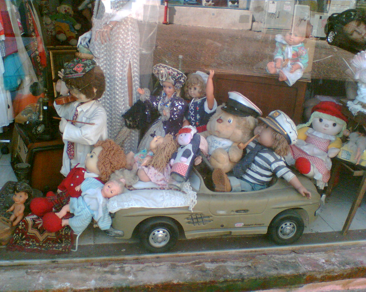 Puppets in a shop in Tel Aviv. Picture taken by David Shay.